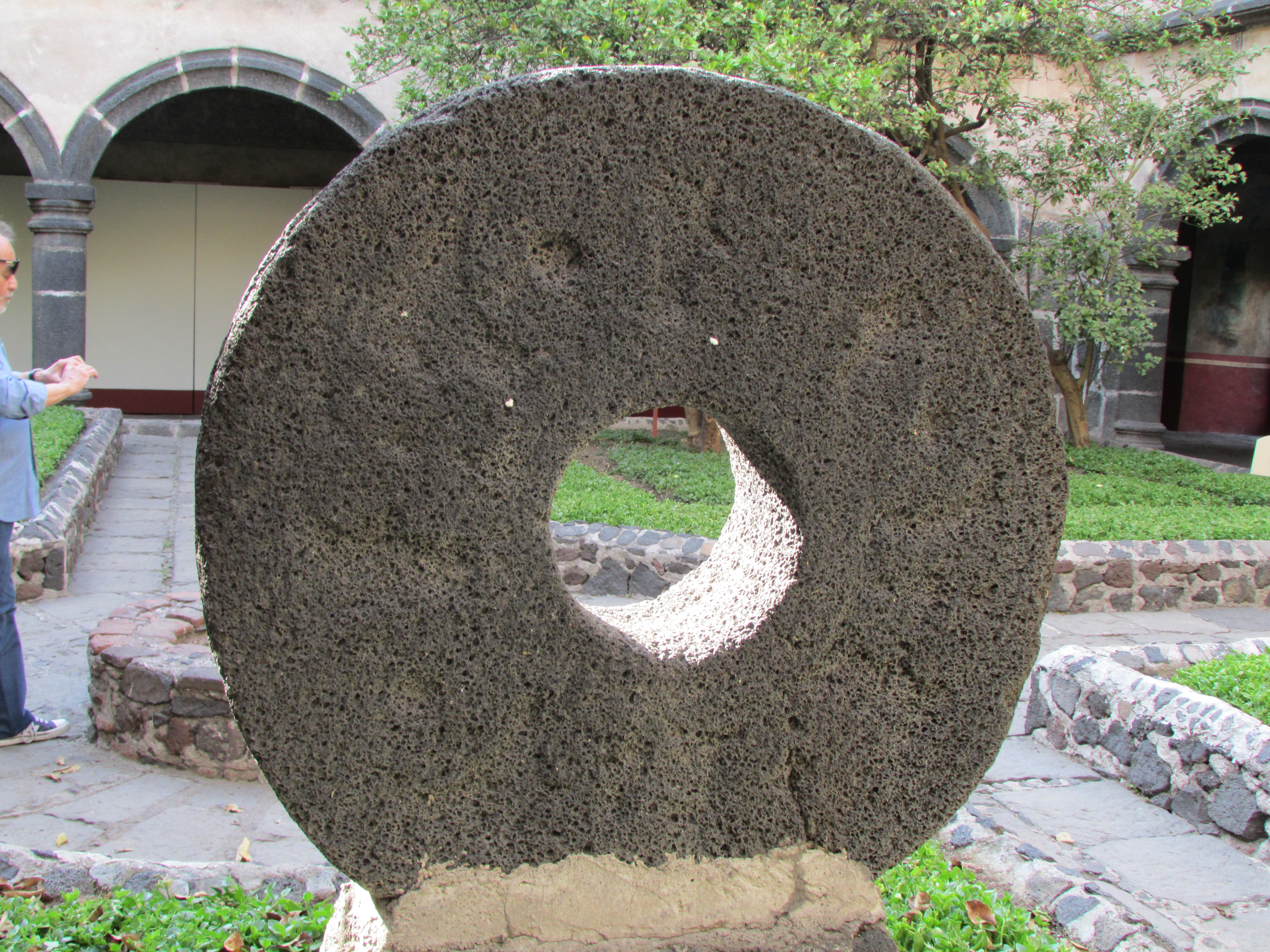 Millstone exhibited at the lower cloister of the San Juan Evangelista ex convent at Culhuacan